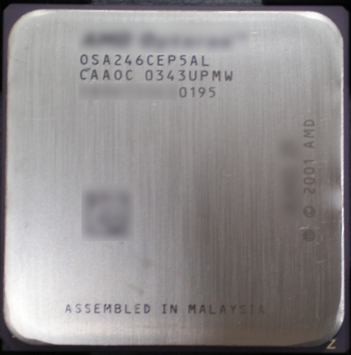 AMD Opteron 246 with 2 GHz, Sledgehammer core, Rev C0, Socket 940